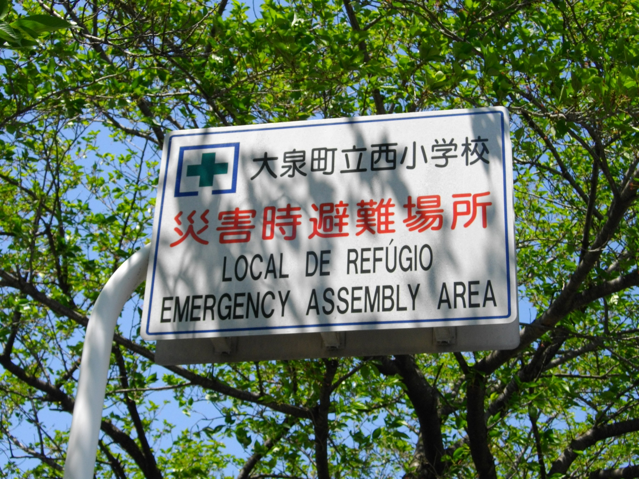 Multilingual(Japanese, Portuguese and English languages) Emergency Assembly Area Sign in Oizumi, Gunma